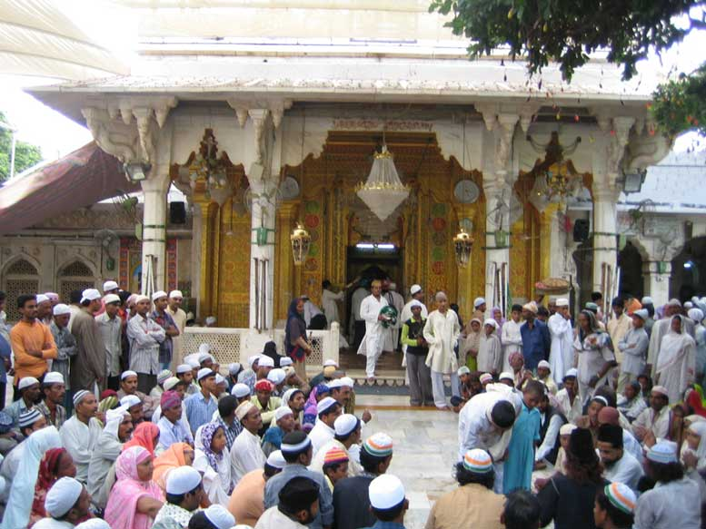 Moinuddin Chishti Dargah in Ajmer, India